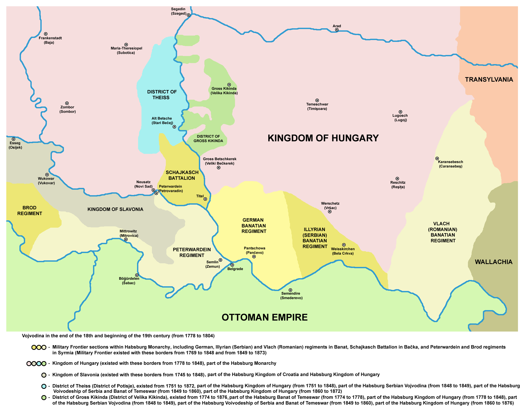 Location of the District of Potisje, District of Velika Kikinda, Šajkaš Battalion, and Banatian and Slavonian military frontier in Vojvodina (18th-19th century).